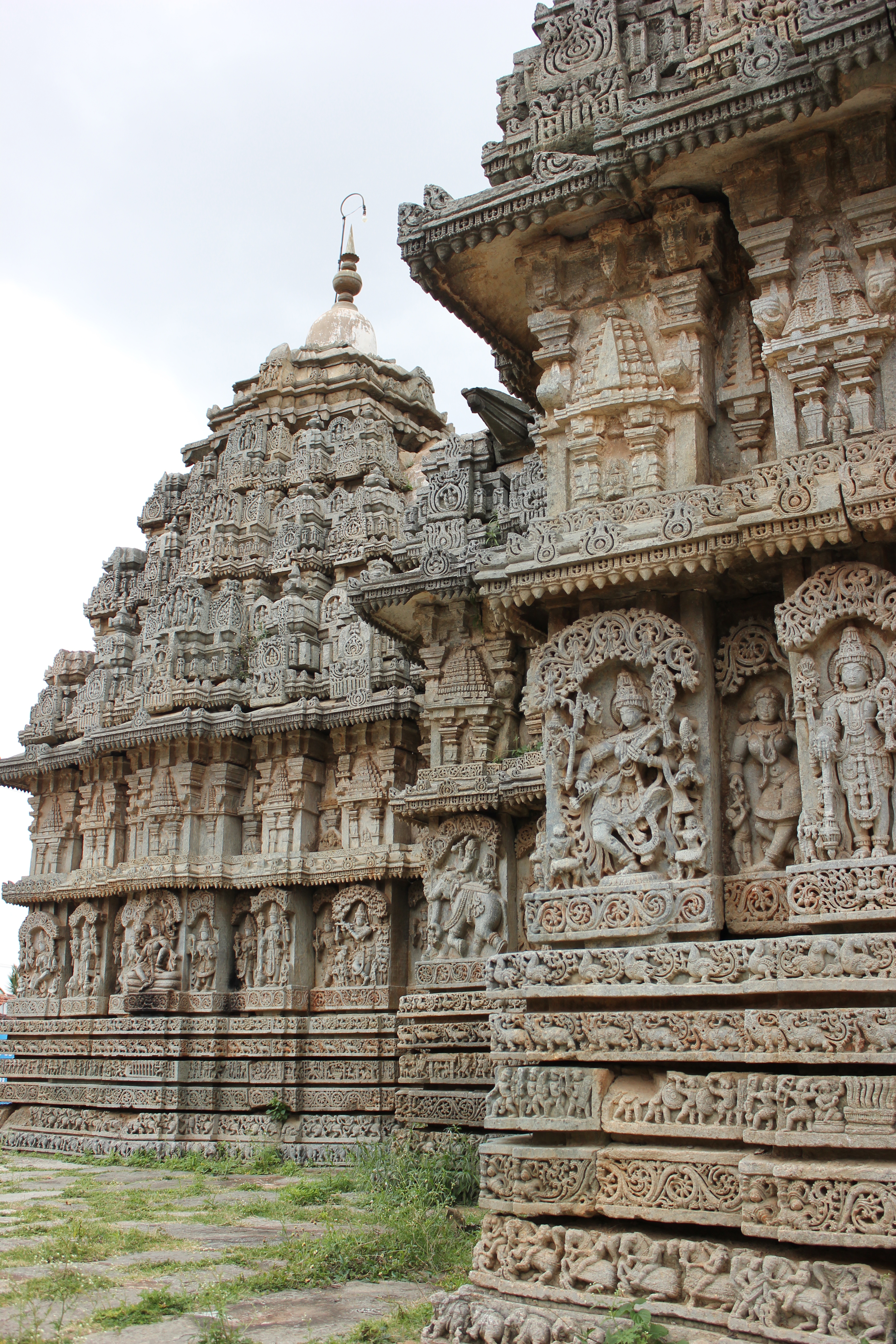 This photograph was taken by me in the Lakshminarasimha temple at Javagal (also called Javagallu) in Hassan district of Karnataka state, India. The temple was constructed in the Hoysala architectural style by Hoysala King Someshwara in 1250 A.D.